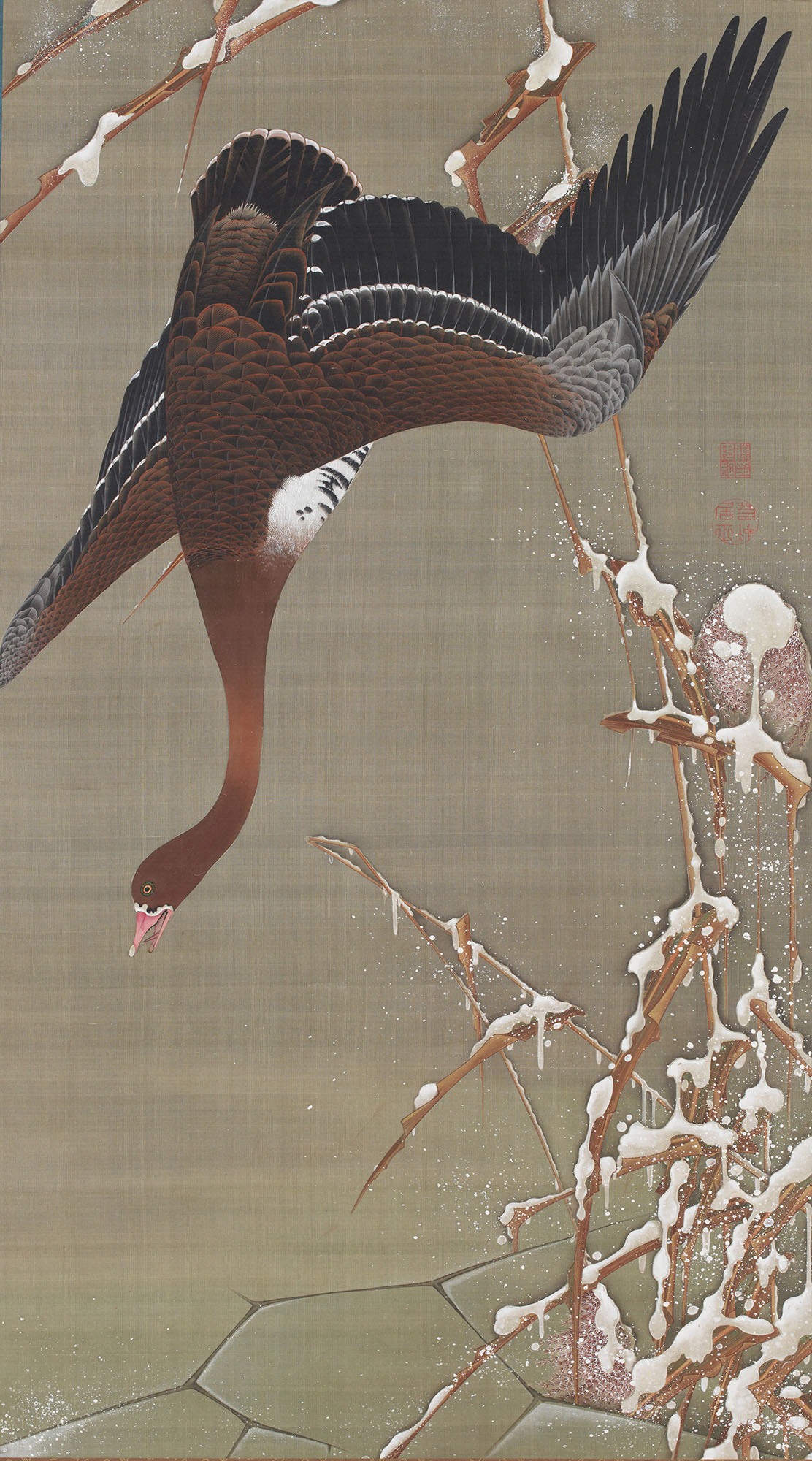 Wild Geese on the surface of the Ice, about 140cm height, 1760s, Ito Jakuchu, Formerly dedicated to Shōkoku-ji temple in Kyoto by the painter. Imperial Collection, Tokyo, Japan